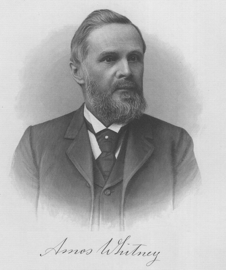 Picture of Amos Whitney. co-founder of Pratt & Whitney